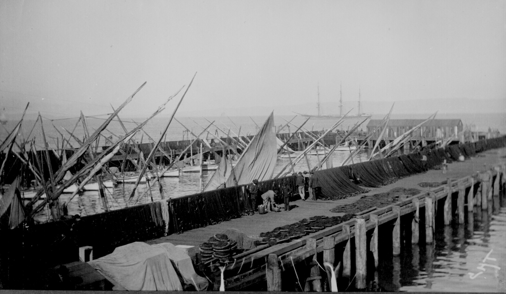 Fishermen's Wharf at foot of Union Street, San Francisco. Circular crab nets and large fish nets are spread out to dry. A three-masted ship is on distant horizon and small feluccas thrust protruding masts and graffs above the wharf's railing, ca. 1891. By Townsend. 22-MDF-2